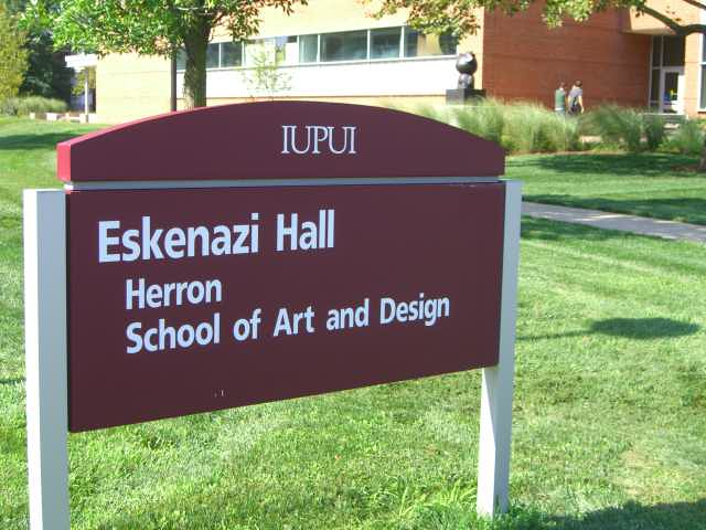 Photo by Nick Juhasz.